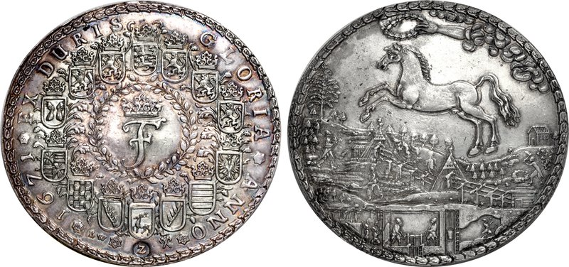 GERMANY, Braunschweig-Lüneburg. Principality of Calenberg-Hannover. Johann Friedrich. Duke, 1665-1679. AR Doppeltaler (64mm, 57.29 g, 12h). Clausthal mint; Lippold Wefer, mintmaster. Dated 1671. EX DURIS GLORIA (star) ANNO (star) 1671 (star), crowned monogram within laurel wreath surrounded by 14 crowned coats of arms set on oak wreath; L W (mintmaster’s initials) flanking monogram below; Z stamped below / Horse leaping left, monogram on flank; above, arm holding laurel wreath reaching from the clouds; in background, scene of Clausthal countryside; below, mining scene. Welter 1666; Duve 2; Müseler 10.4.2/19; Davenport 203. EF, lightly toned.